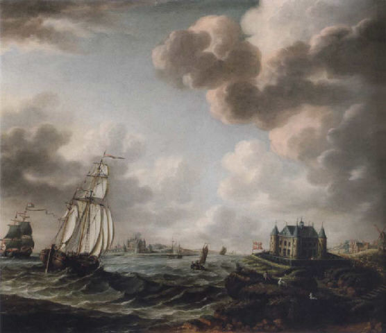 Kronburg castle